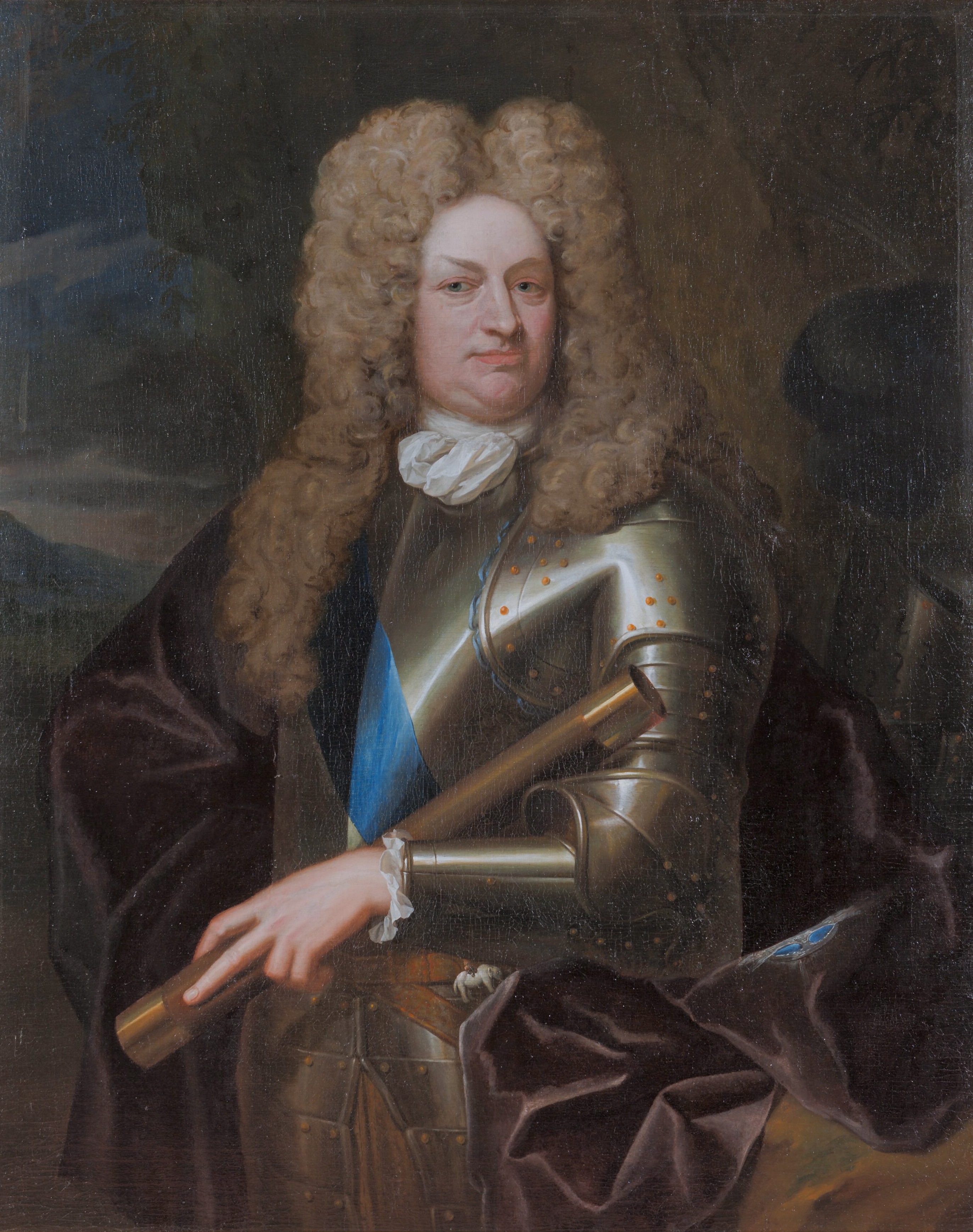 Godard van Reede (1644-1703) oil on canvas 107 x 93,5 cm 1675 - 1699